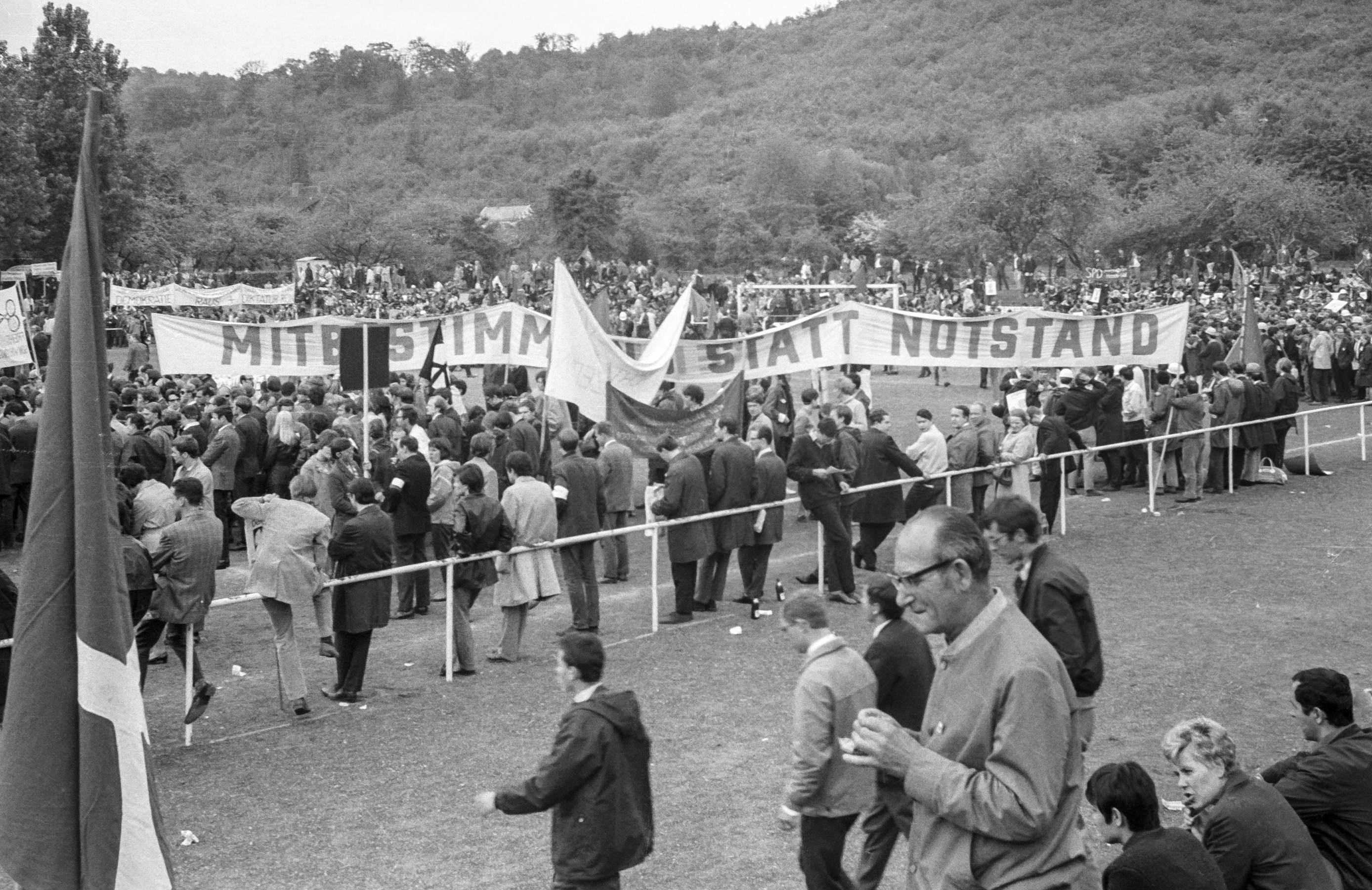 Demonstration on May 11, 1968 as part of a star march on the then capital Bonn against the planned emergency laws